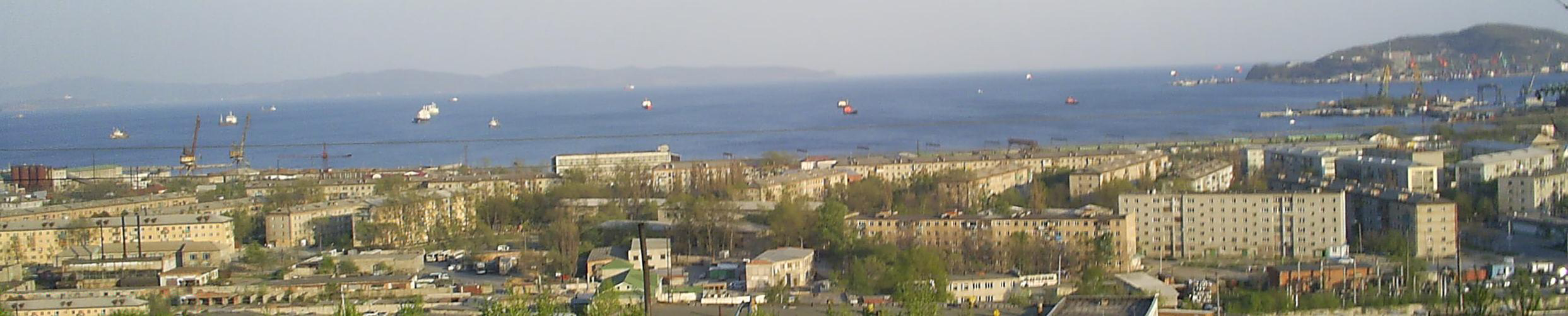 Panorama Nakhodka Gulf's and Nakhodka city shots from Dzerzhinsky Hill